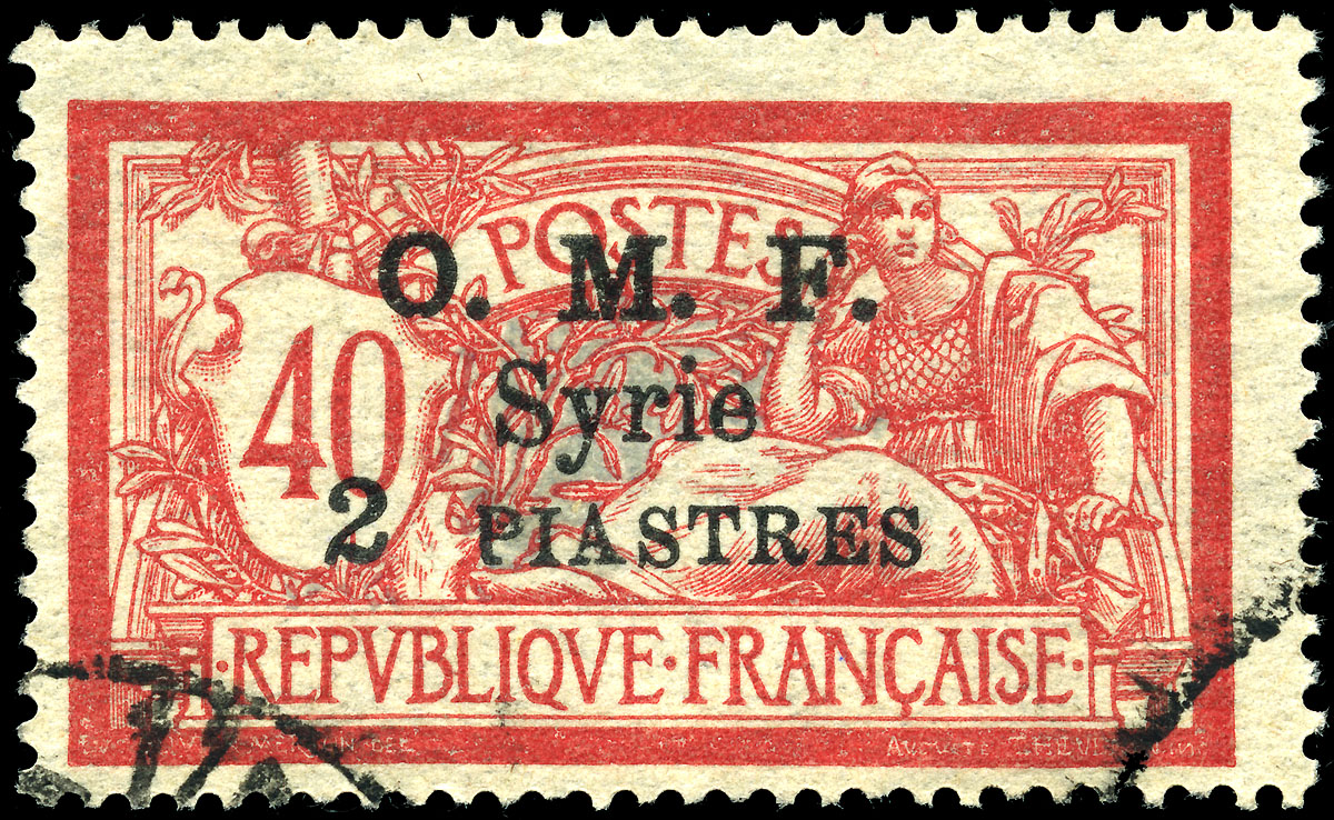 Syrian 2-piastre overprint stamp of 1921